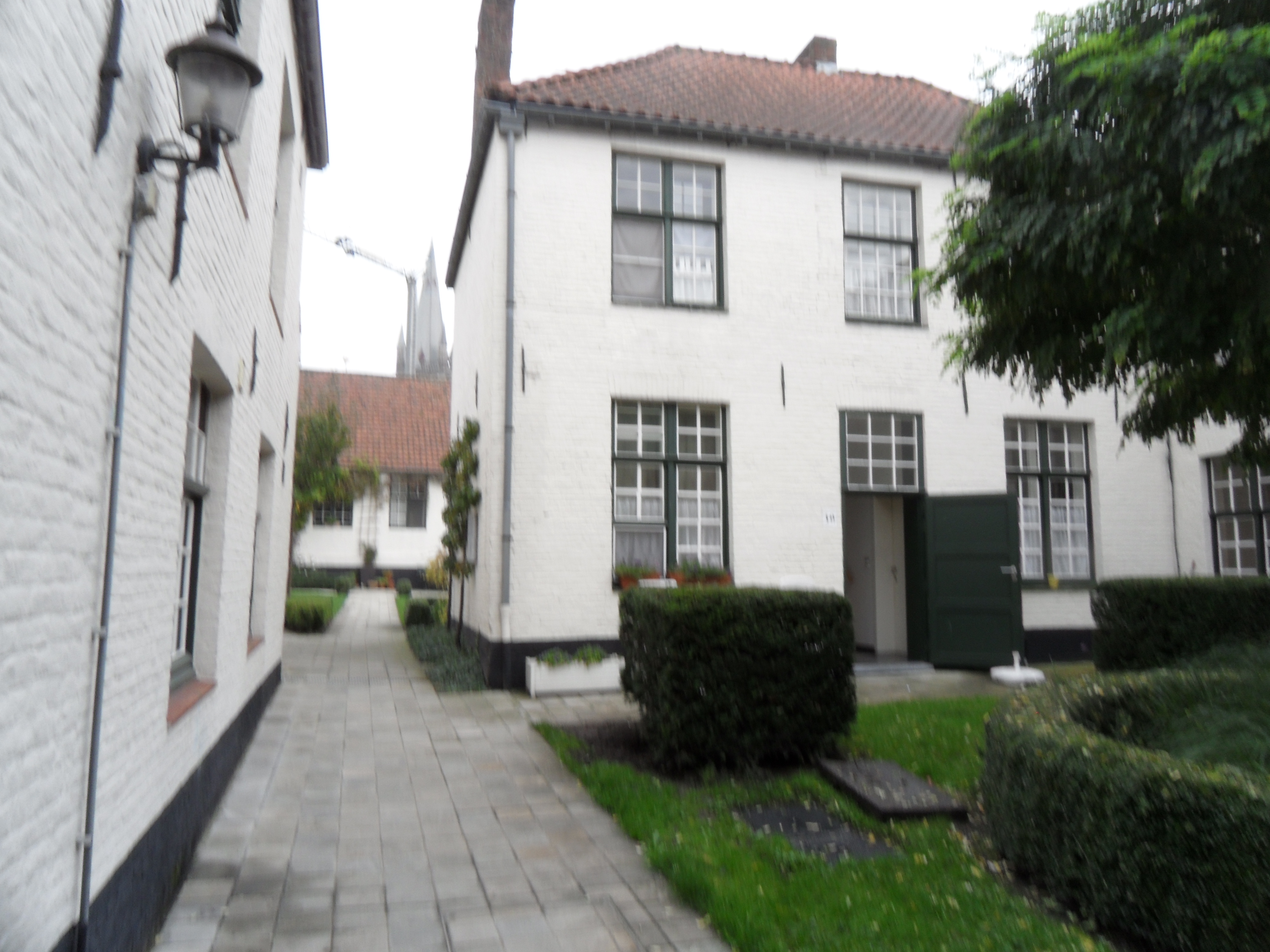 Sint-Trudo